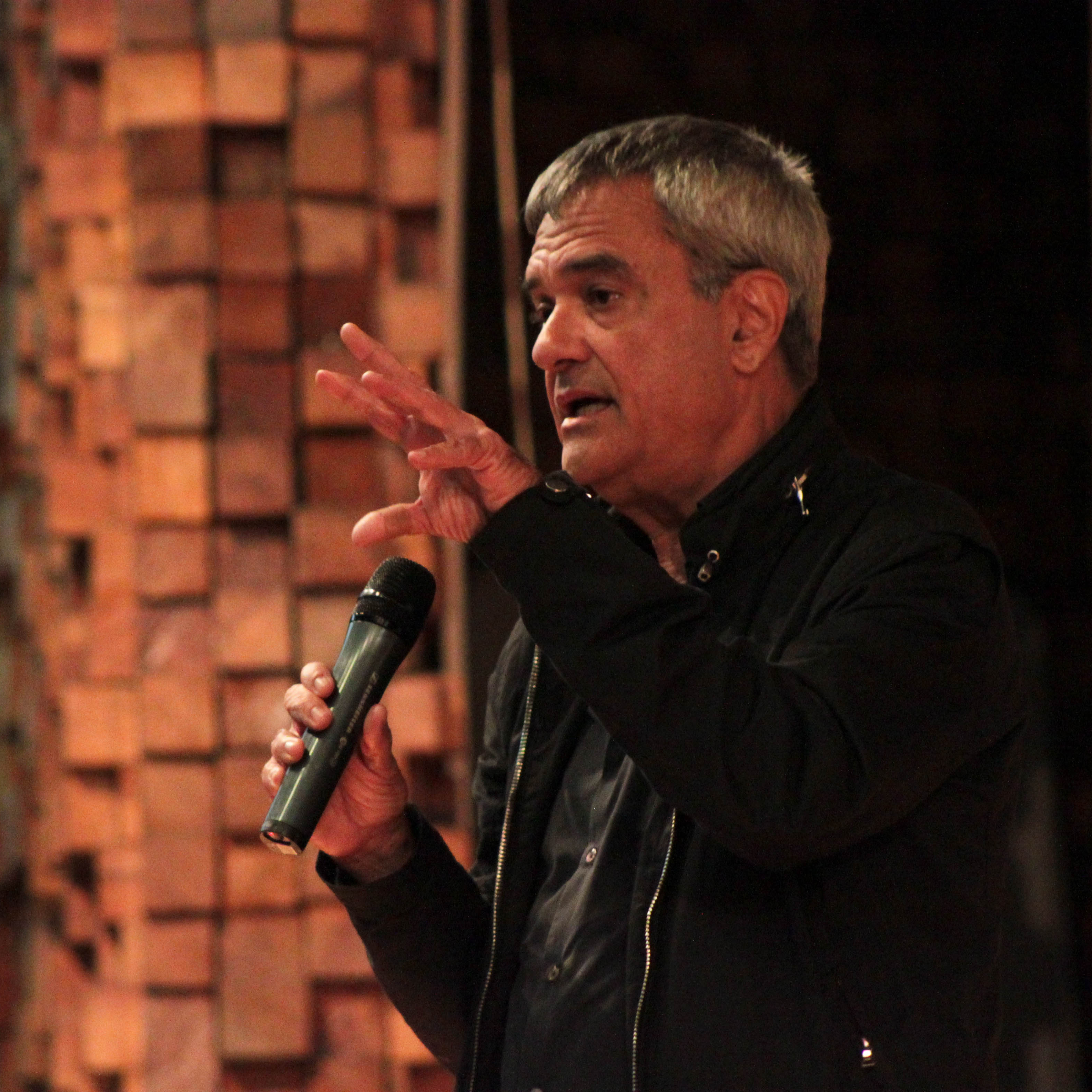 Arthur Omar at a screening of his videos in Mexico City. 11 February, 2012. Picture by Delia Martinez. Ambulante Documentary Festival.